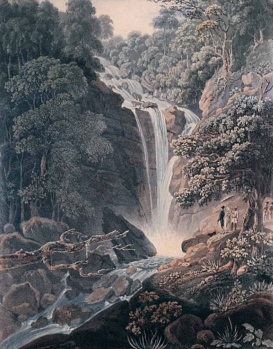 Title: View of the Cascade, Prince of Wales's Island Media: Aquatint Width: 354 mm (13.9 in) Height: 455 mm (17.9 in) Year of creation: 1818 Mode of acquisition: Presented by Estate of late Heah Joo Seang, 1969